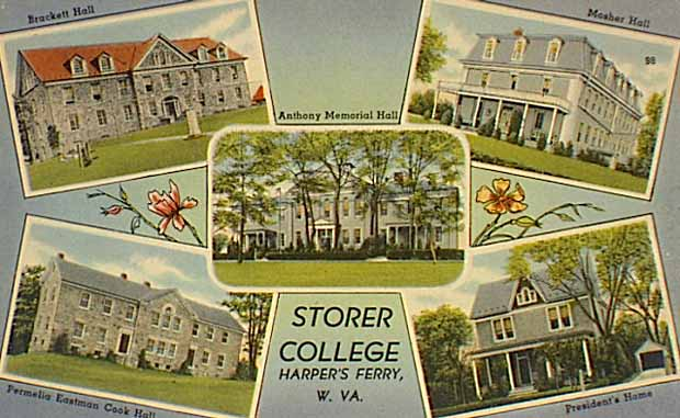 Postcard of Storer College, a historically black college in Harpers Ferry, West Virginia.